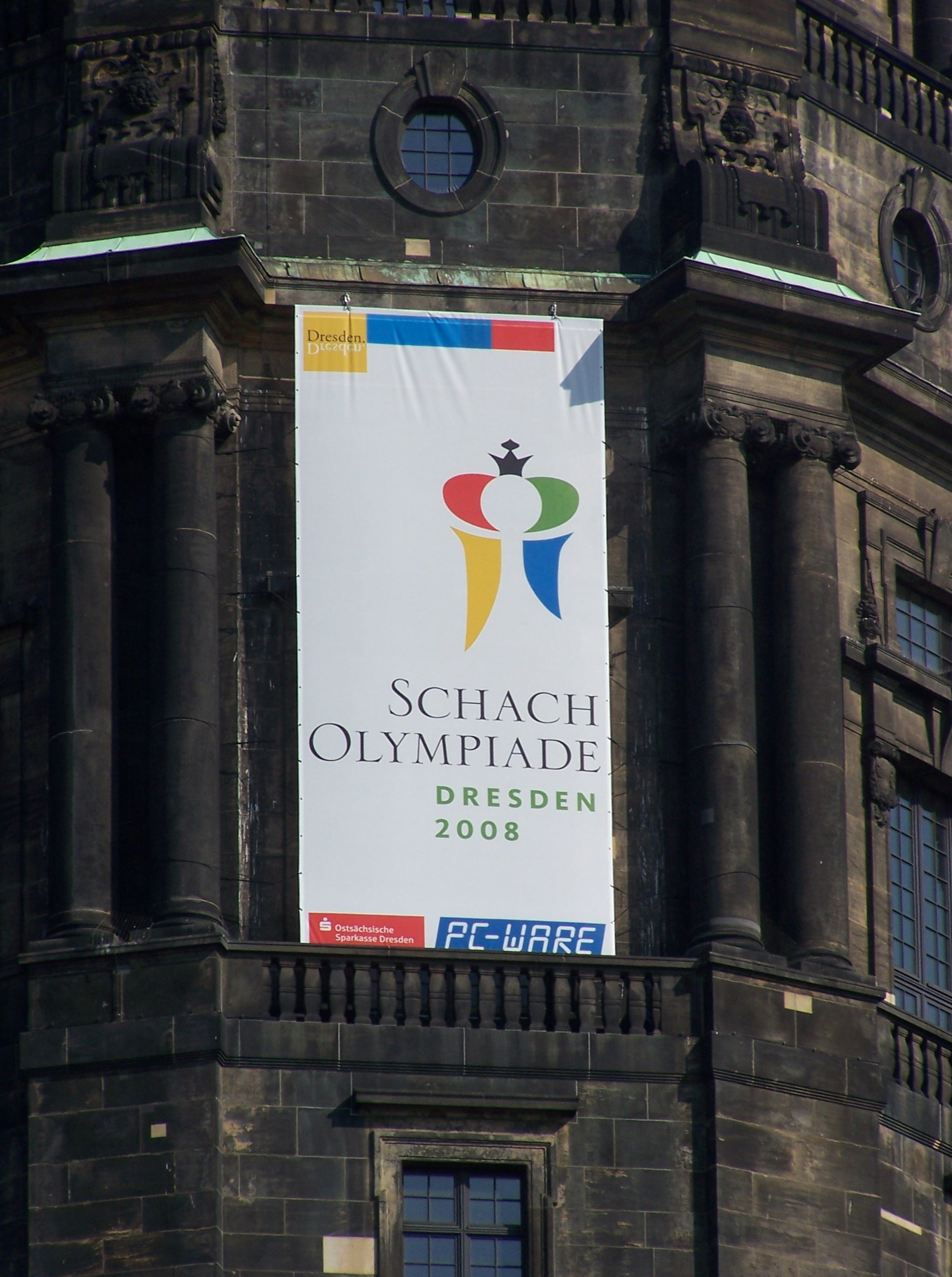 Banner at the city hall tower in Dresden advertising the 2008 Chess Olympiad held at Dresden Congress Center